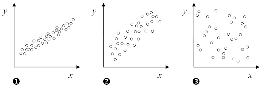 1. Strong correlation, 2. Weak correlation, 3. No correlation between variables x and y.